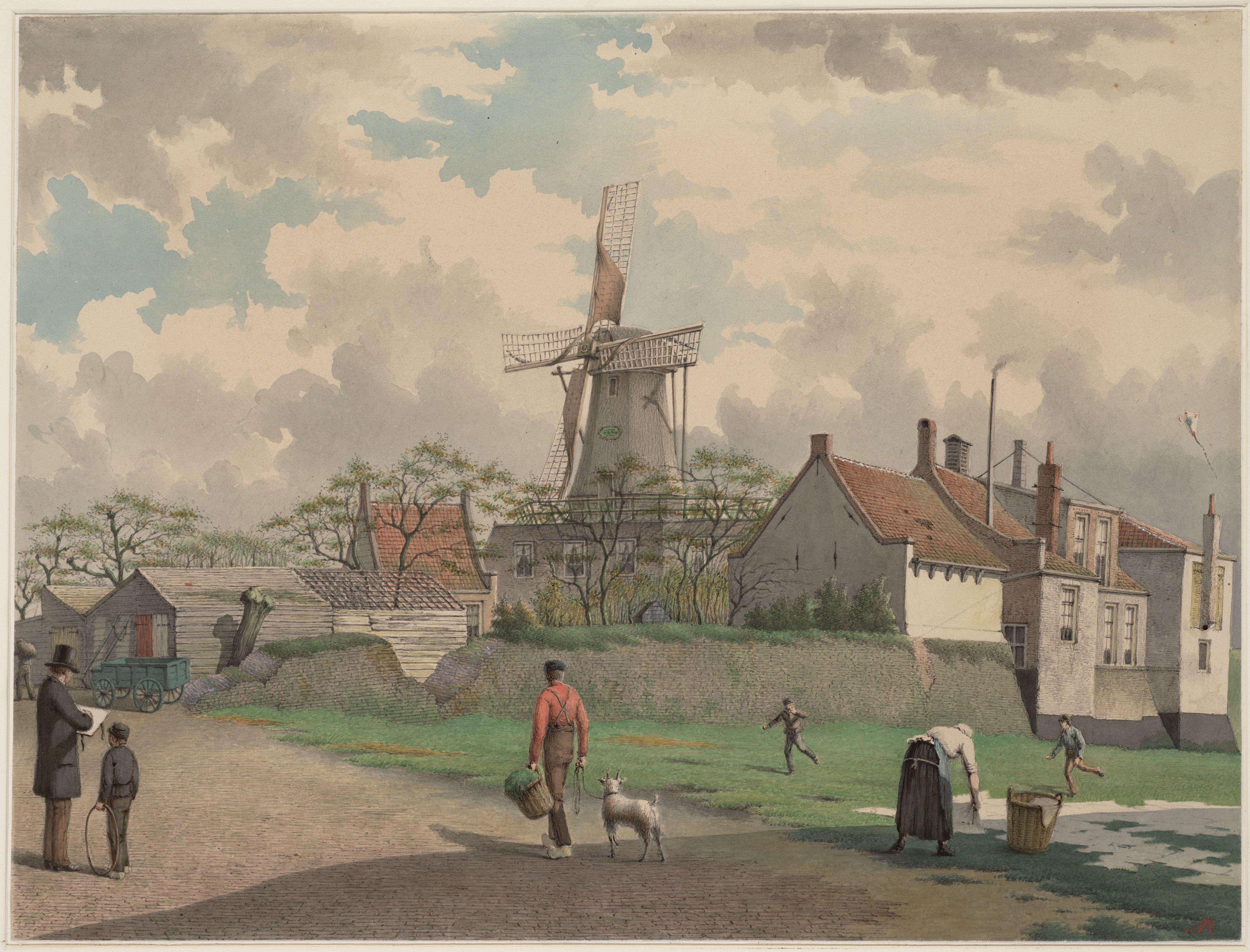 Former cocoa windmill De Goede Verwachting in Amsterdam, seen from just outside the city walls, by J.M.A. Rieke, 1887